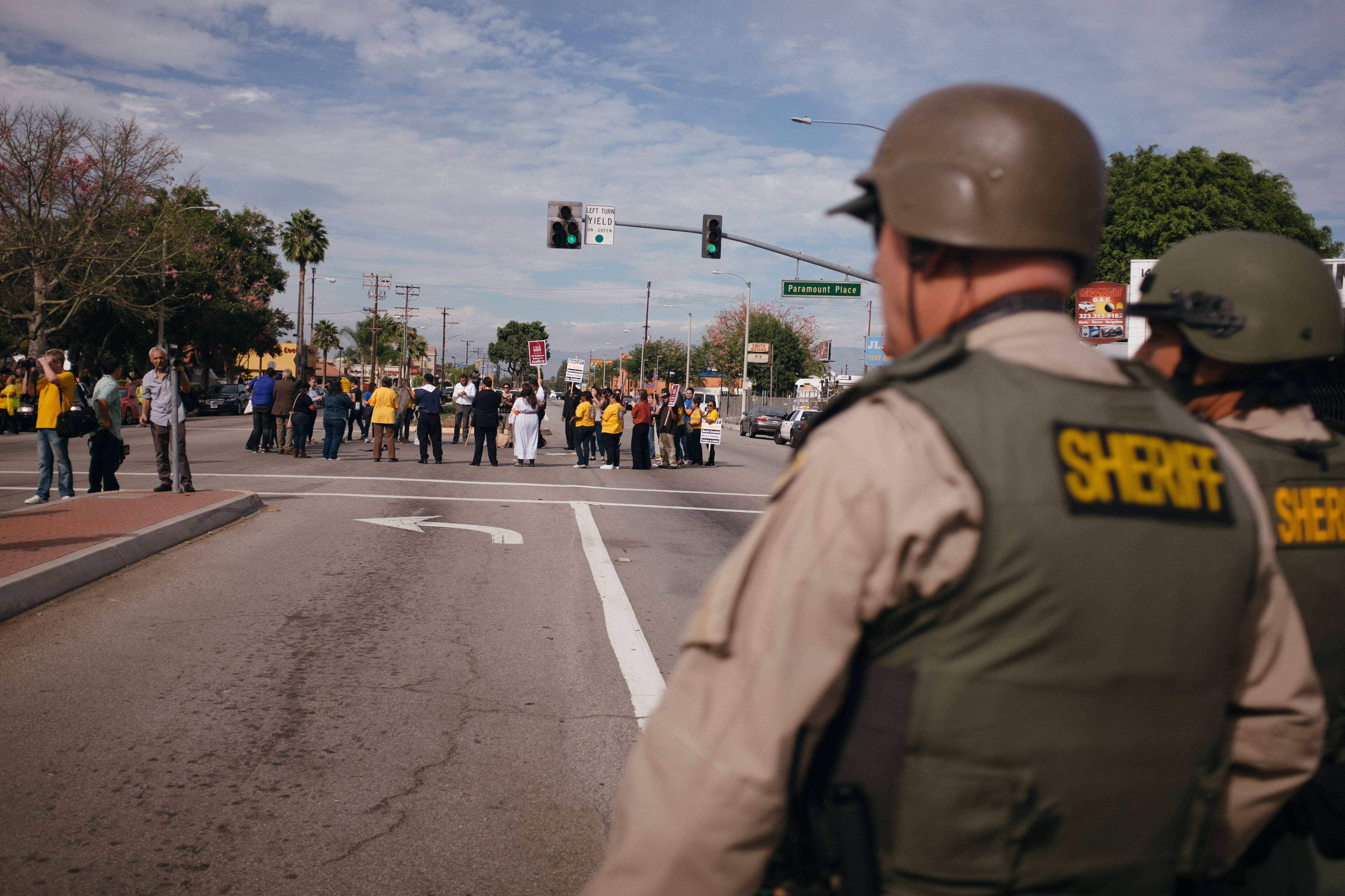 Sheriffs watch grocery works from the United Food and Commercial Workers union striking at El Super supermarket in California on November 23, 2015.